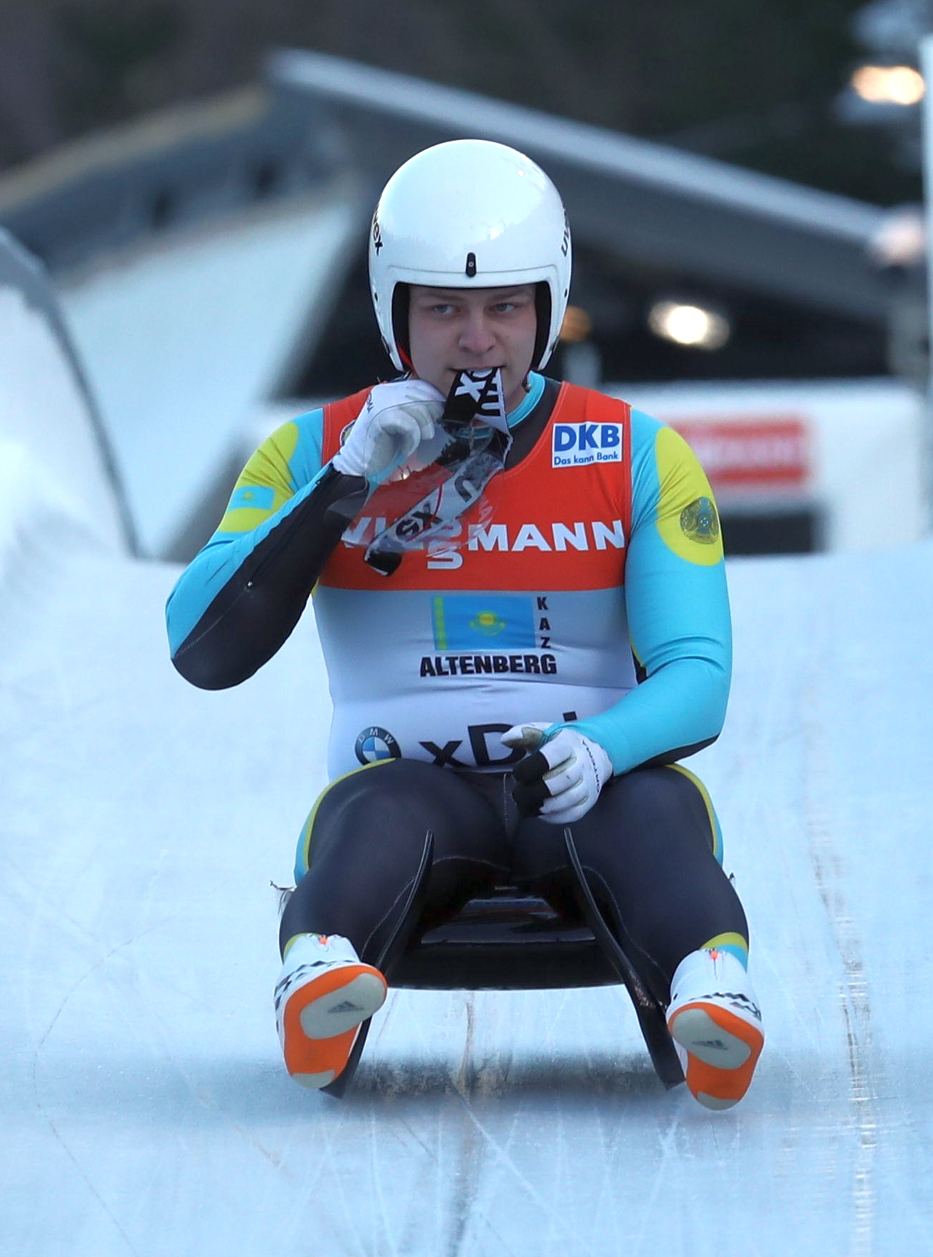 Team relay race at the Altenberg luge world cup 2017/18: Nikita Kopyrenko